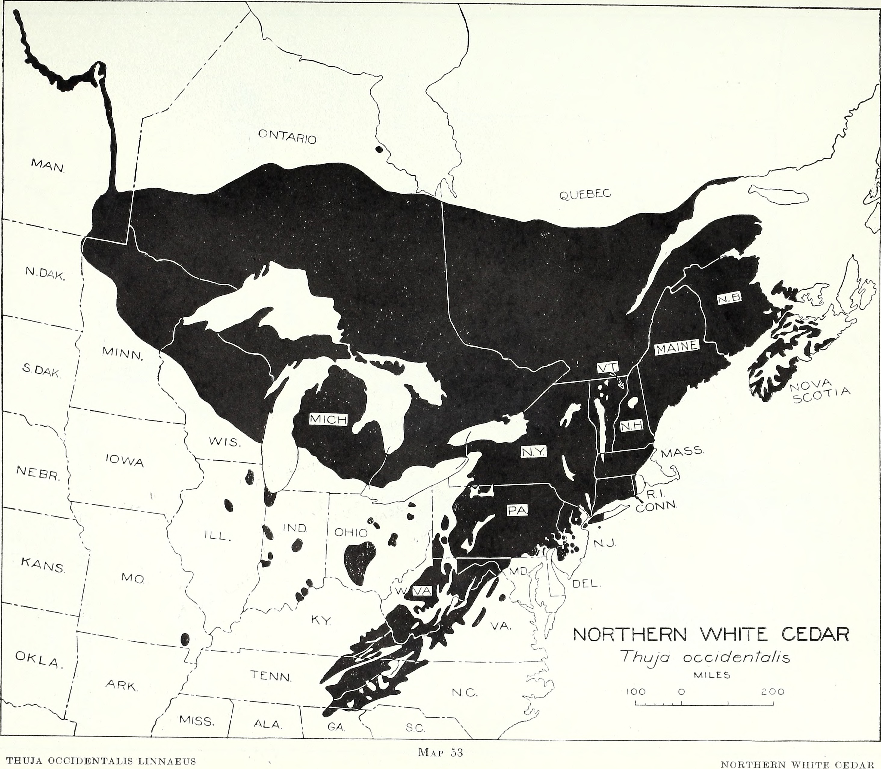 Title: The distribution of important forest trees of the United States Year: 1938 (1930s) Authors: Munns, E. N. (Edward Norfolk), 1889-1972 Subjects: Forests and forestry; Trees Publisher: Washington, D. C. : U. S. Dept. of Agriculture Text Appearing Before Image: â 57 Text Appearing After Image: '